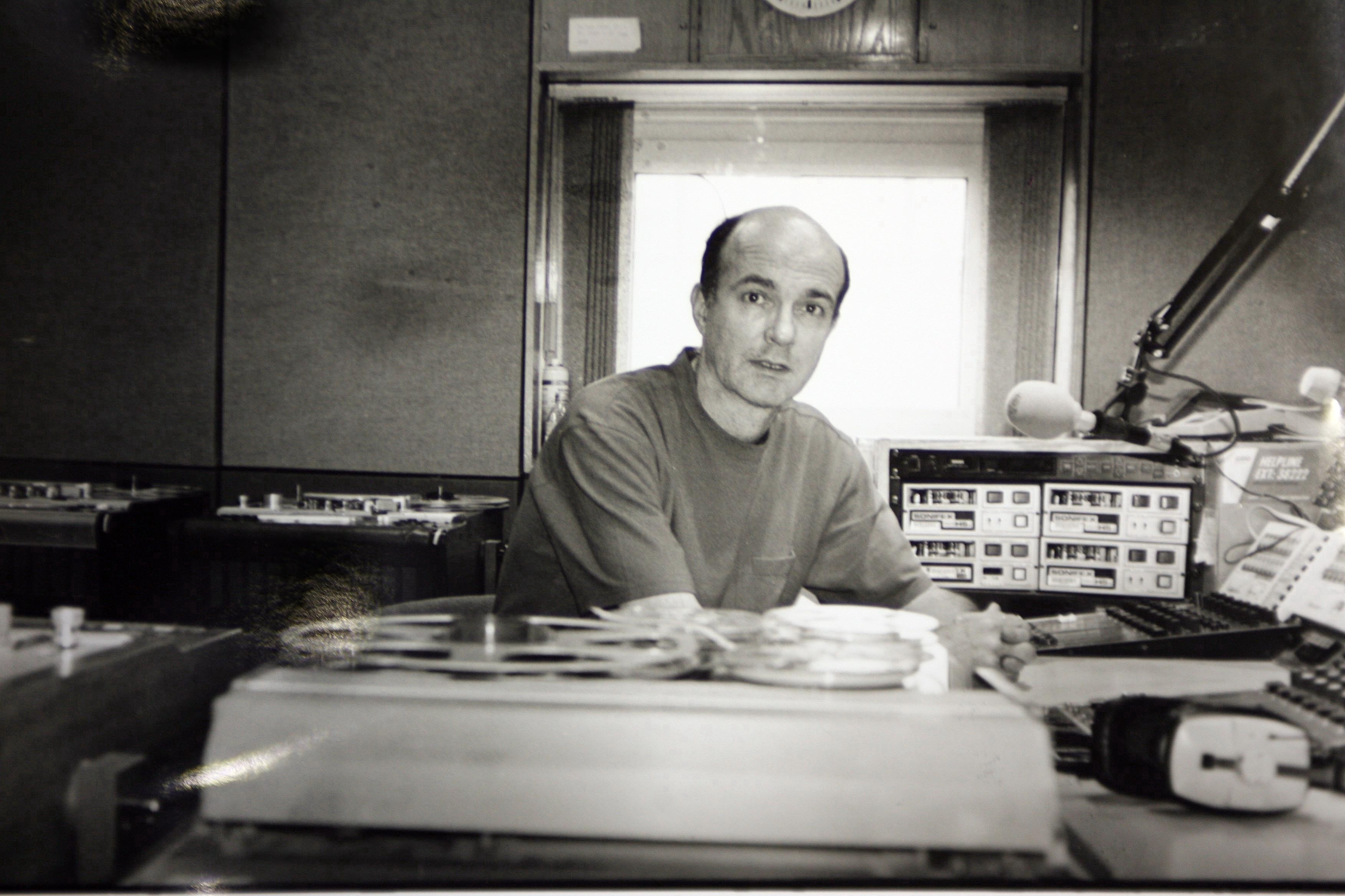 Roland Jaquarello at work at the BBC